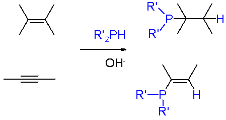 Phosphine additions alkenes